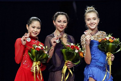 he ladies podium at the 2015 World Championships.From left: Satoko Miyahara (2nd), Elizaveta Tuktamysheva (1st), Elena Radionova (3rd).